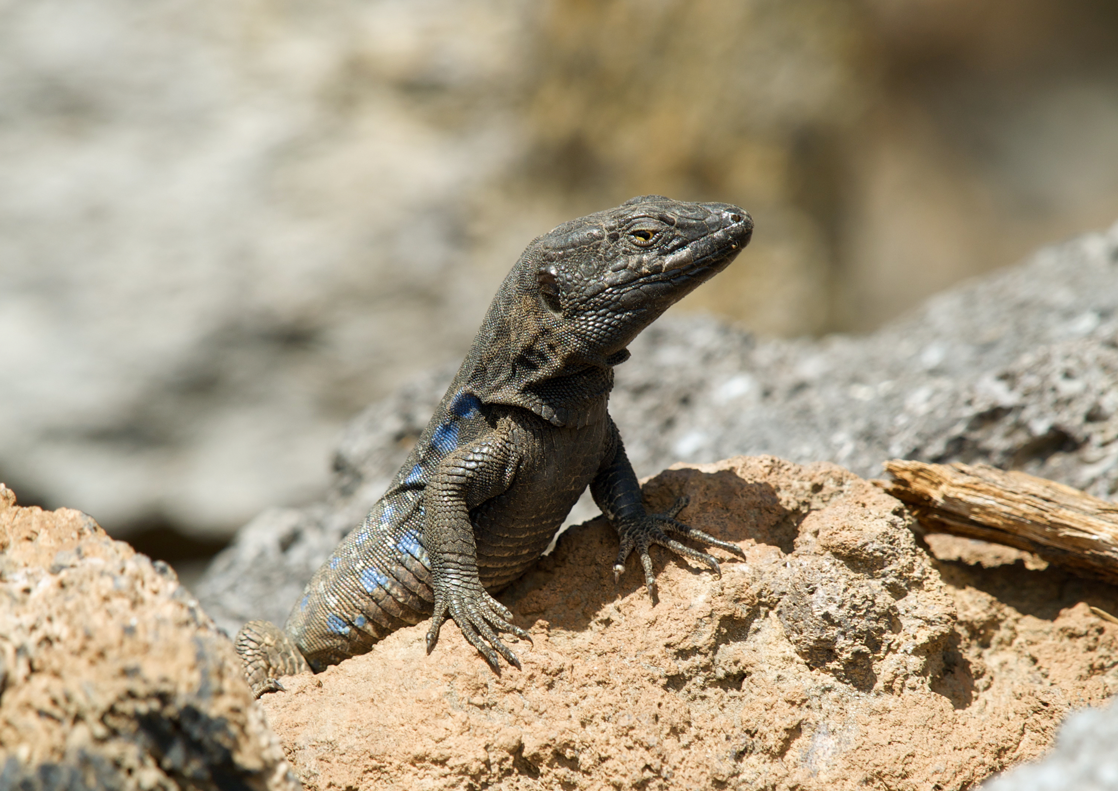 Male Tenerife Lizard (Gallotia galloti galloti); Las Cañadas, Tenerife, Spain